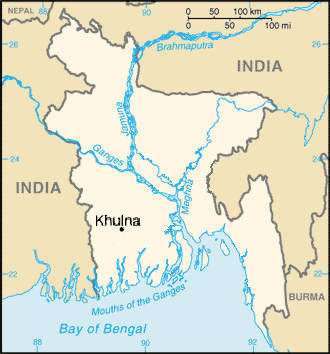 Map of Bangladesh showing Khulna city